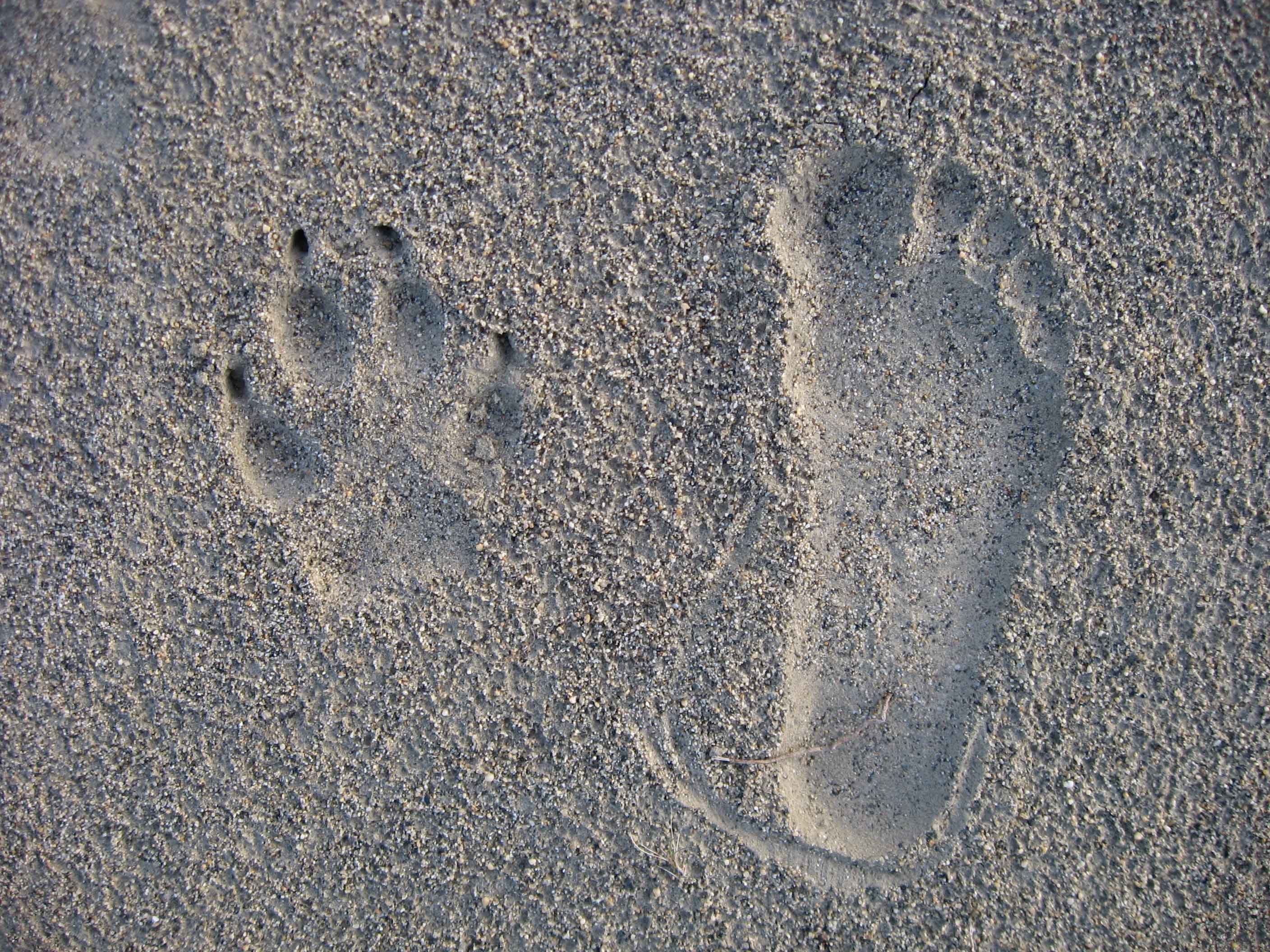 A wolf footprint on the sand with it's 4 toes next to a human print with 5. Humans are plantigrade walkers (flat footed) but wolves are digitigrade walkers (on their toes). Close view of wolf print next to a human print in the sand.